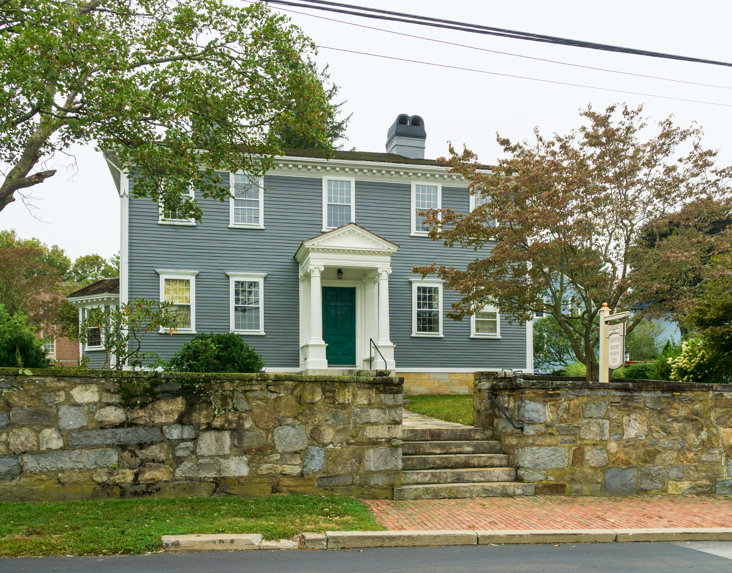 Varnum House Museum , 57 Peirce Street in East Greenwich, Rhode Island. NRHP ID 71000016.